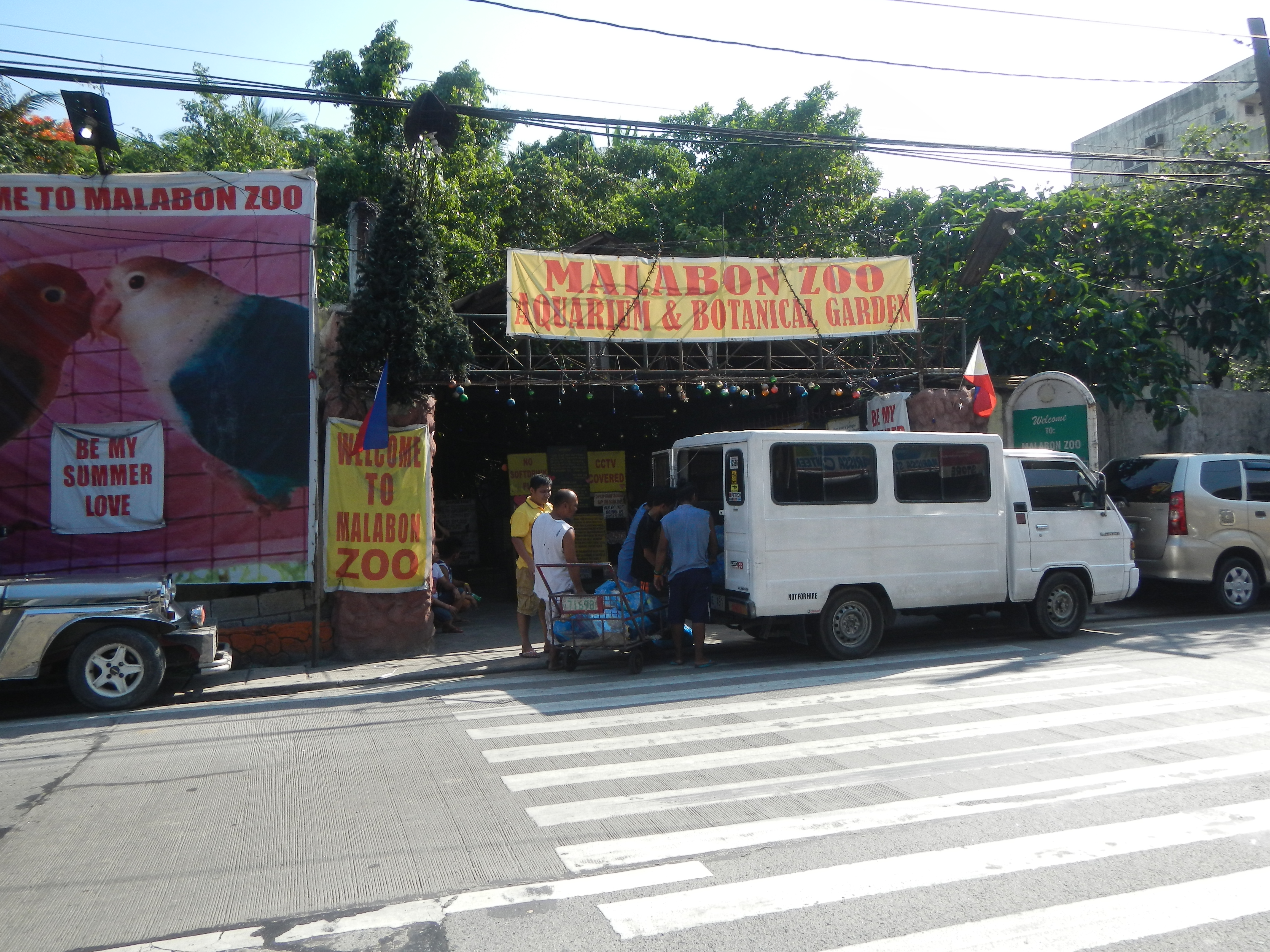 Pinagtipunan Circle (Potrero, Malabon City) MacArthur Highway (Caloocan City-Potrero, Malabon City section) of MacArthur Highway (or Manila North Road in Caloocan City and Malabon City, Barangay Potrero, District II, Malabon City Potrero Elementary School interconnecting with the Governor Pascual Avenue Coordinates 14°40'13"N 120°57'30"E Malabon City Barangay Hall towards the Malabon Zoo, Aquarium and Botanical Garden (Governor Pascual Street, Potrero, Malabon City) in the List of zoos by country Malabon Zoo and Aquarium - Governor Pascual Street, Potrero, Malabon City, List of aquaria gateway to List of roads in Metro Manila, MacArthur-Calle Uno Monumento Footbridge of the Metro Manila Road Network to and from the Rizal Avenue Extension (Caloocan City) in Rizal Avenue at the Monumento LRT Station).